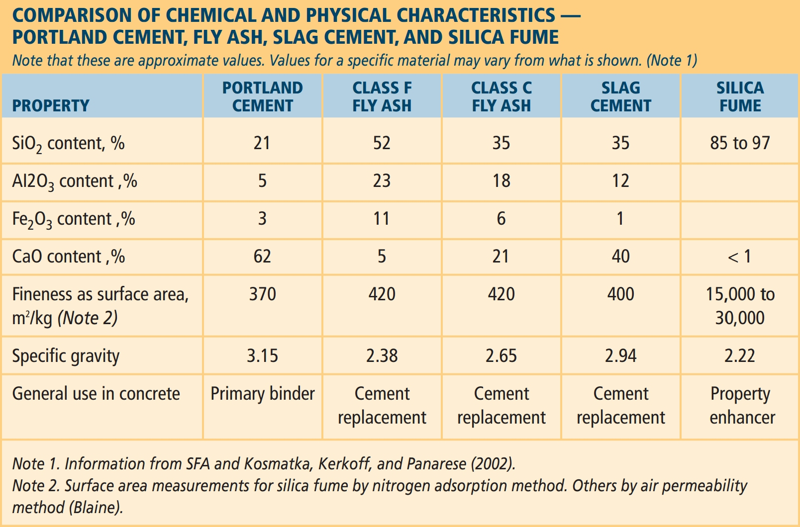 Comparison of Chemical and Physical Characteristics Portland